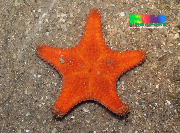 Cake sea star (Anthenea aspera). More about this sea star on the wildfacts sheets on wildsingapore. For a high res version of this photo, please review the details on about using my photos. When making the request, please include this reference: 080408chgd0623